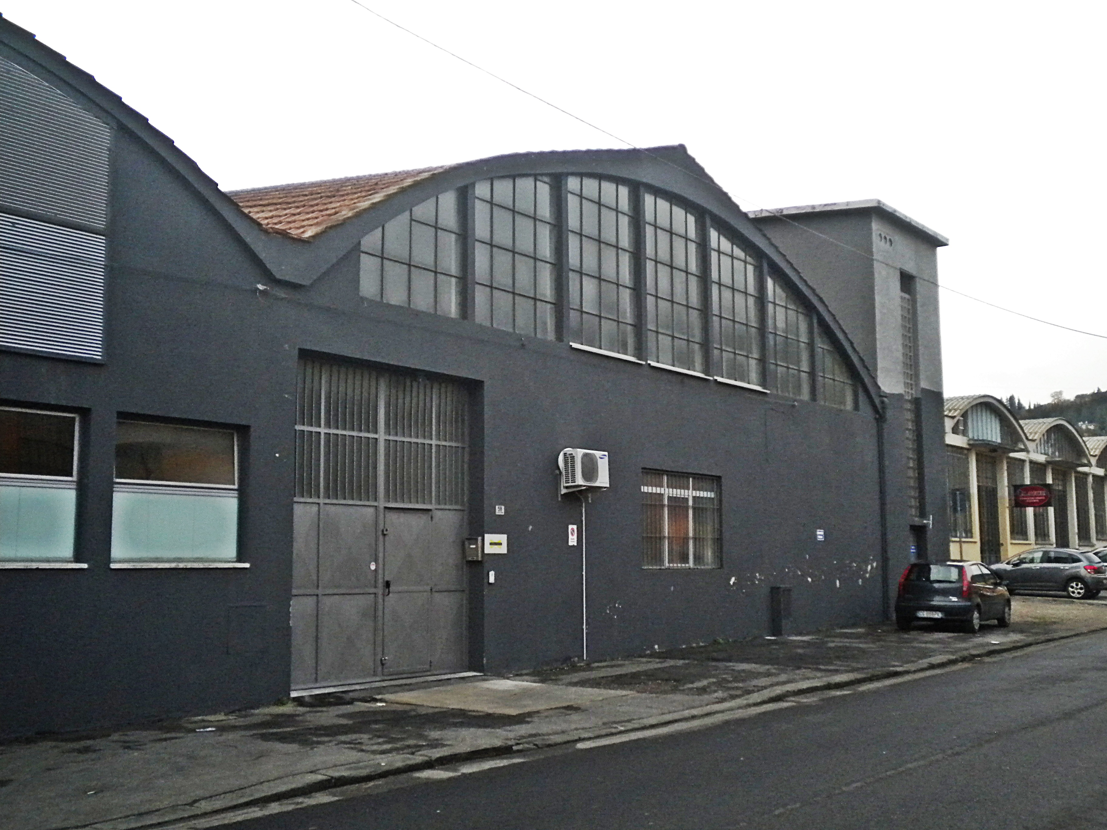 Factory